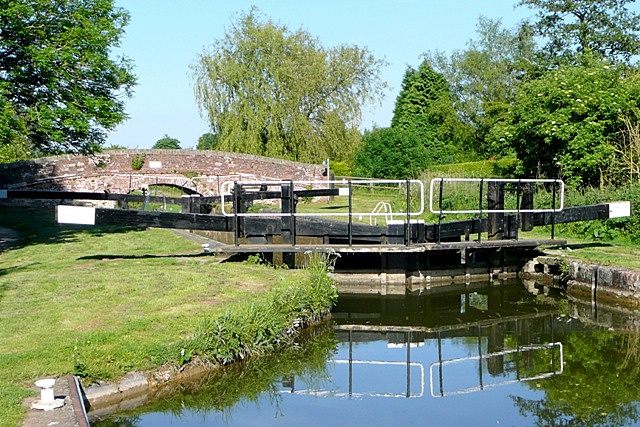 Guyer's Lock Lock 84, with a fall of 7 feet.